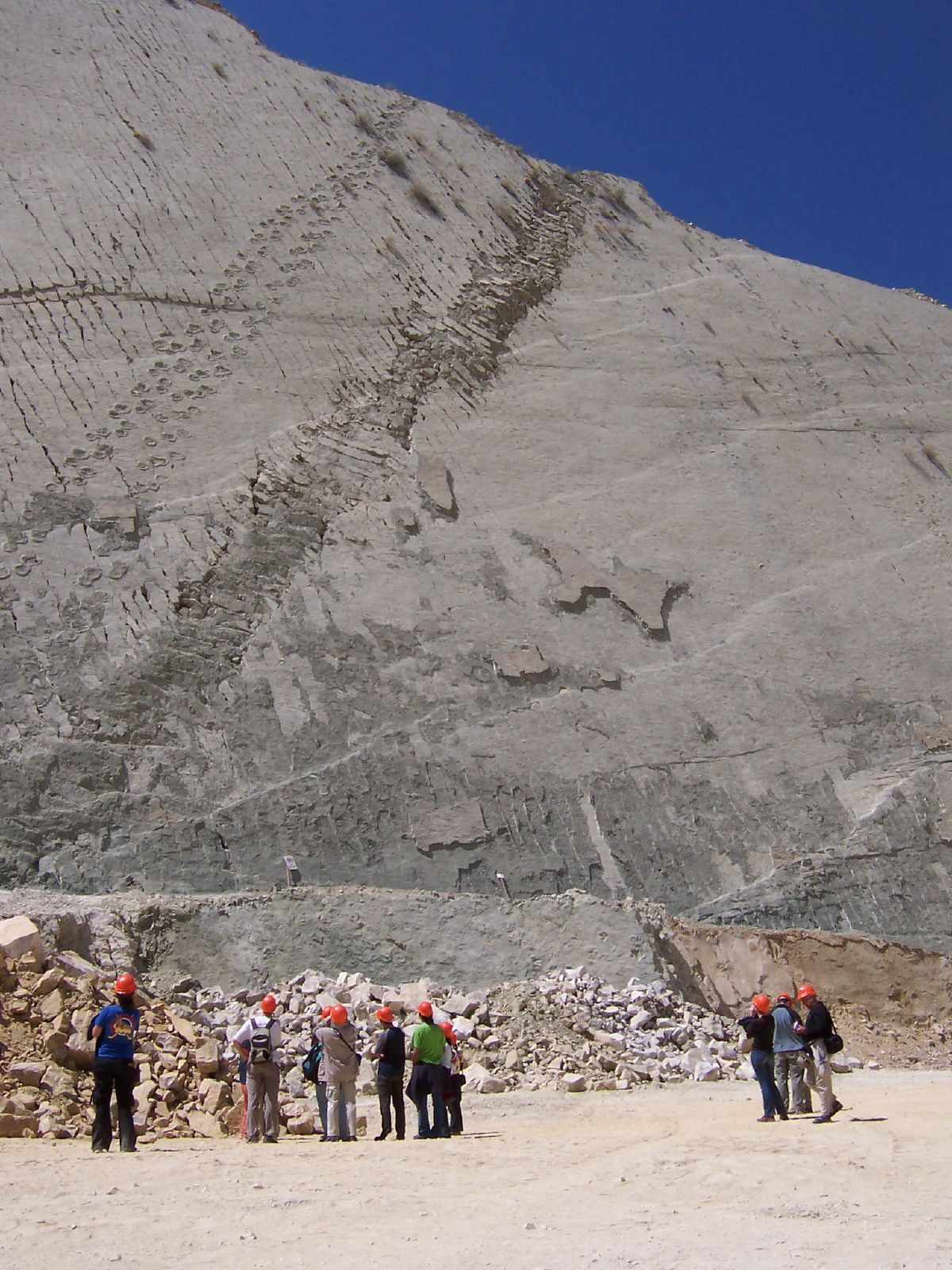 Dinosaur tracks in Bolivia.